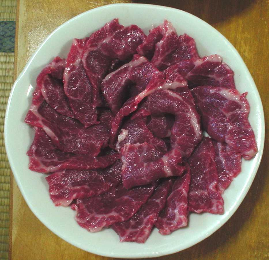 Horse meat.